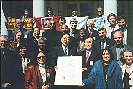 New York City NUCLEAR WEAPONS ABOLITON DAY PROCLAMATION, 28, 2004. Mayor Akiba from Hiroshima and Mayor Ito from Nagasaki are holding the proclamation, directly behind Mayor Akiba is NYC Councilman Perkins, in the last row are UN NGO Ribbon Representatives, Susan Nickerson, Michele Peppers, June Tano and Barbara Gathard, the others are Mayors and MFP representatives from around the world.